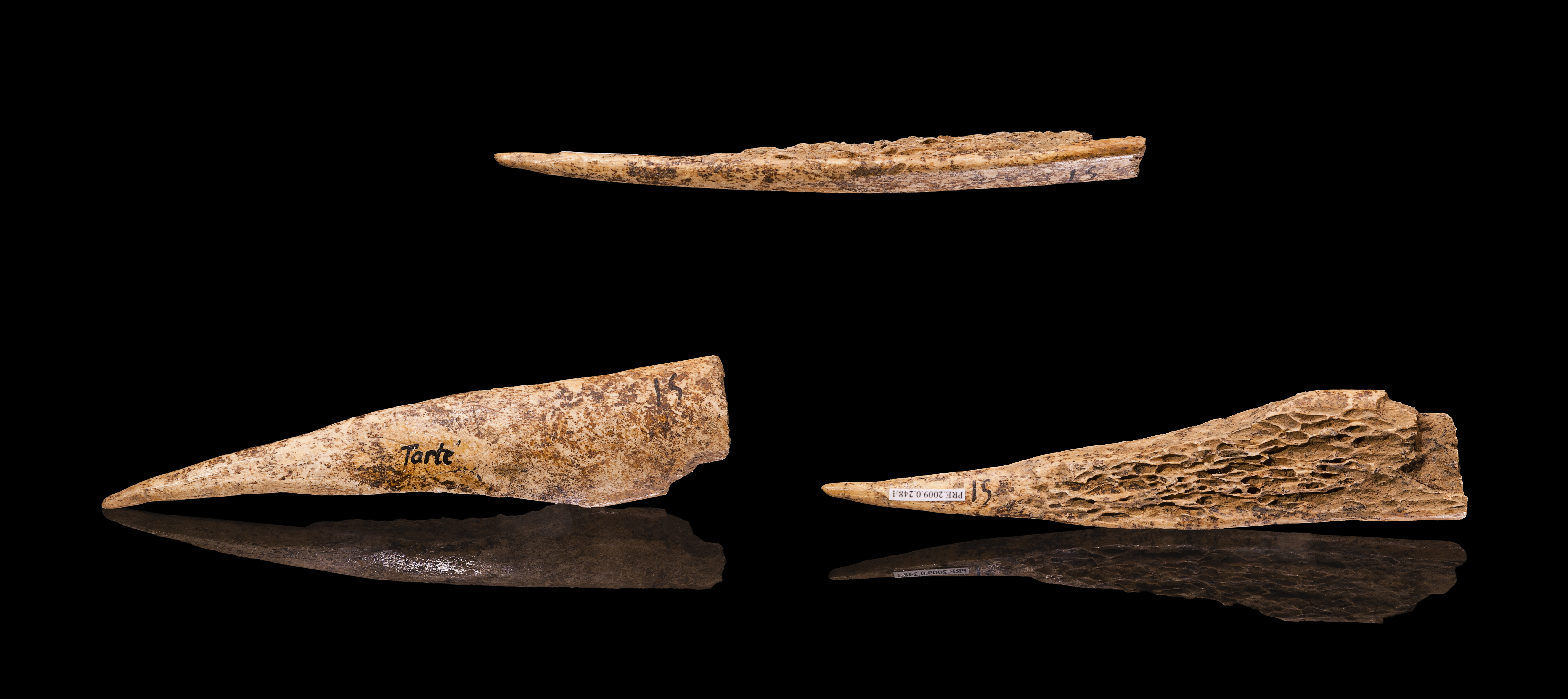 Awl made from abraded bone